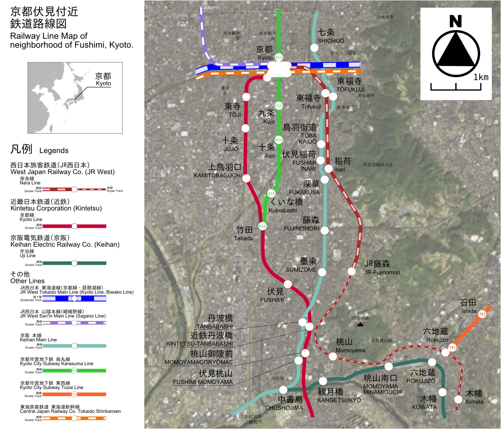 This is the Railway Line Map of neighborhood of Kyoto, Fushimi in Japan. This is the raster image version.